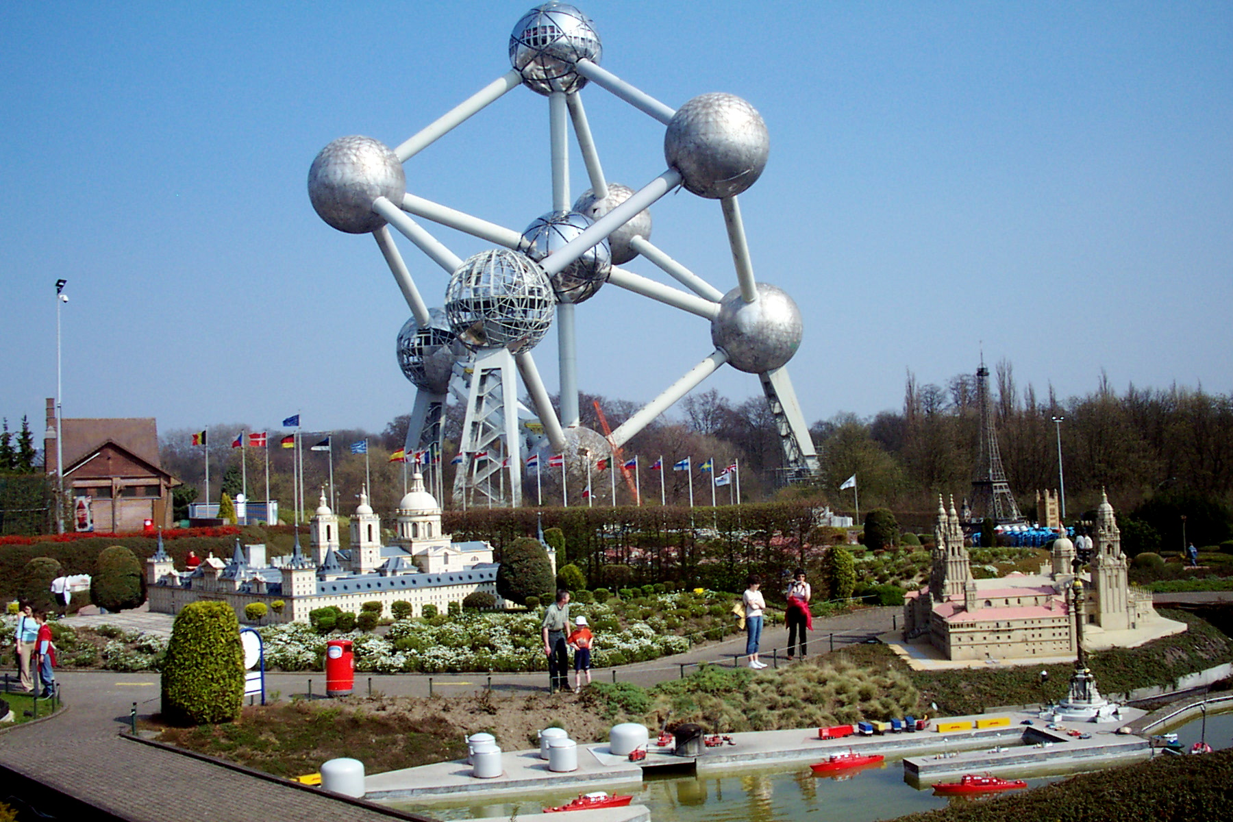 Photograph by Colin Gregory Palmer taken in en:2005